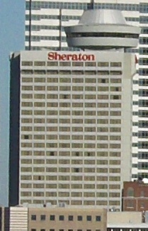 Sheraton Nashville Downtown cropped